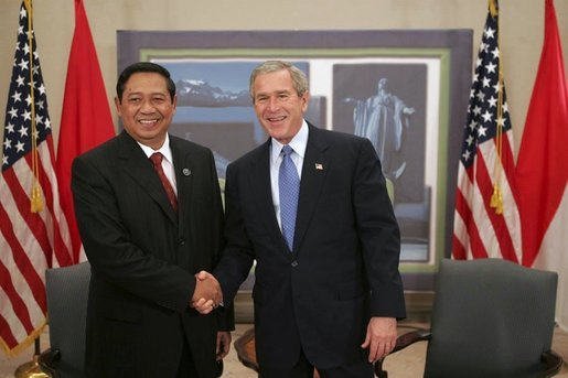 U.S. President George W. Bush greets Indonesian President Susilo Yudhoyono while attending an APEC summit in Santiago, Chile, Nov. 20, 2004. White House photo by Eric Draper.